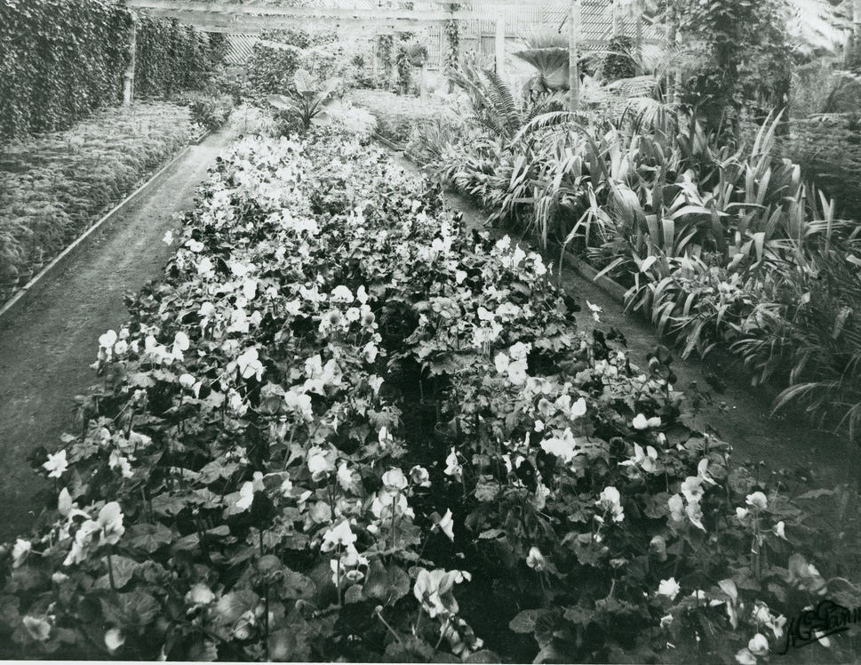 Photo inside one of the shadehouses at Hackett's Nursery, showing begonias in foreground